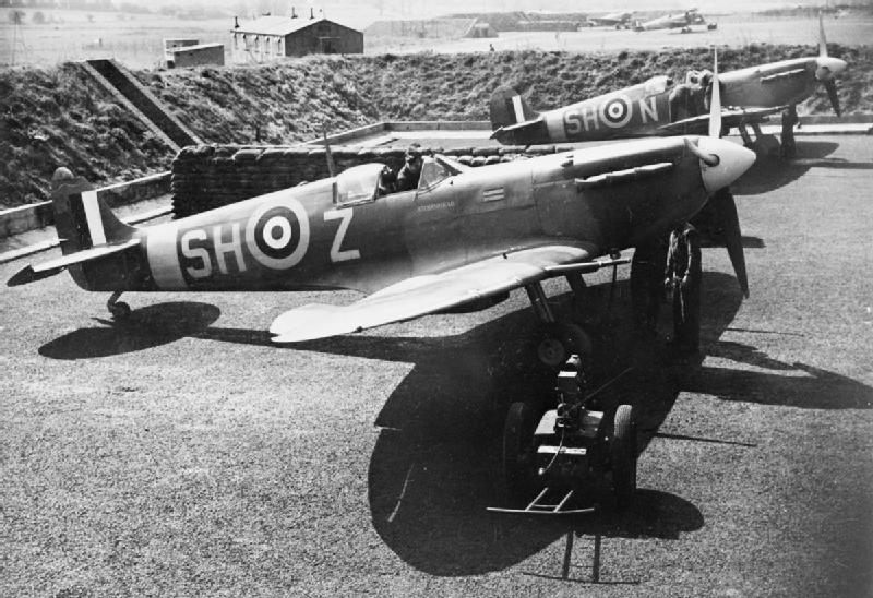 Aircraft of the Royal Air Force, 1939-1945- Supermarine Spitfire. Spitfire Mark VBs of No. 64 Squadron RAF in revetments at Hornchurch, Essex. The nearest aircraft, (probably) BM476 ‘SH-Z’ “Atchashikar”, was flown by the Squadron’s Commanding Officer, Squadron Leader W G G D Smith.